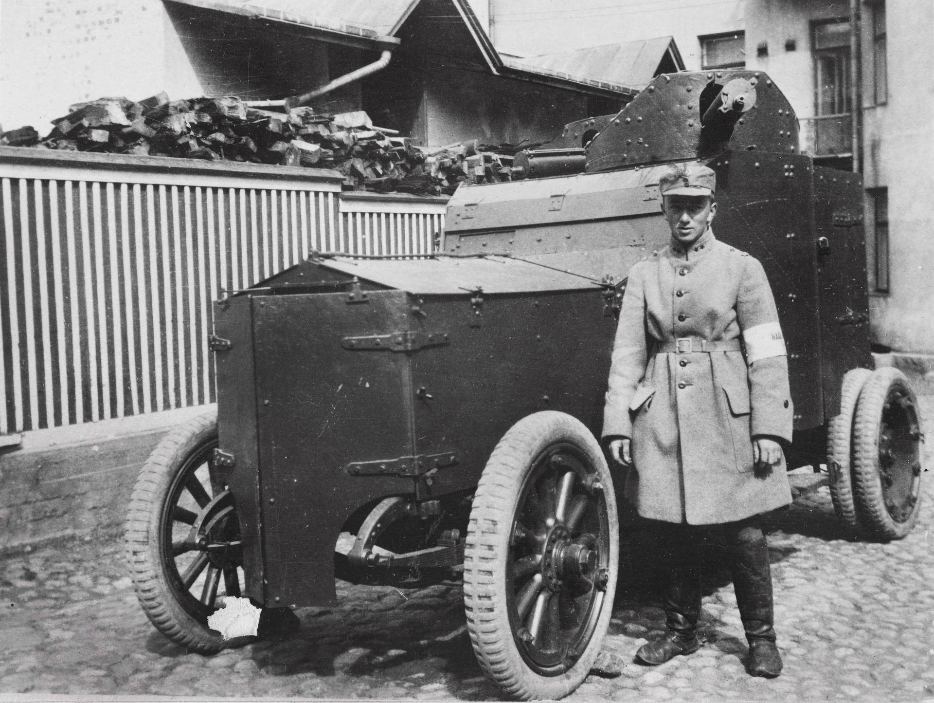 Armoured car "Armstrong Whitworth" used by red guards in the battle of Tampere 1918.